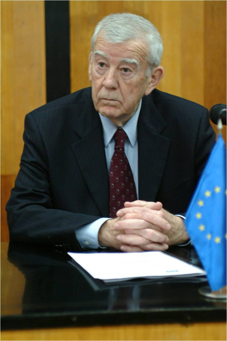 Živorad Kovačević, President of the European Movement in Serbia.